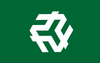 Flag of Kamikitayama Nara